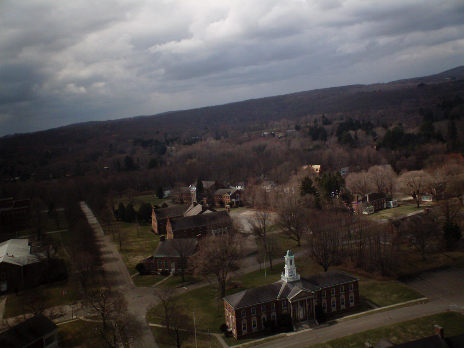 The Fairfield State Hospital is a huge place that was built 1933 to house the insane patients overflowing from two other state hospitals in Connecticut. The place is as big as a Ive League School.